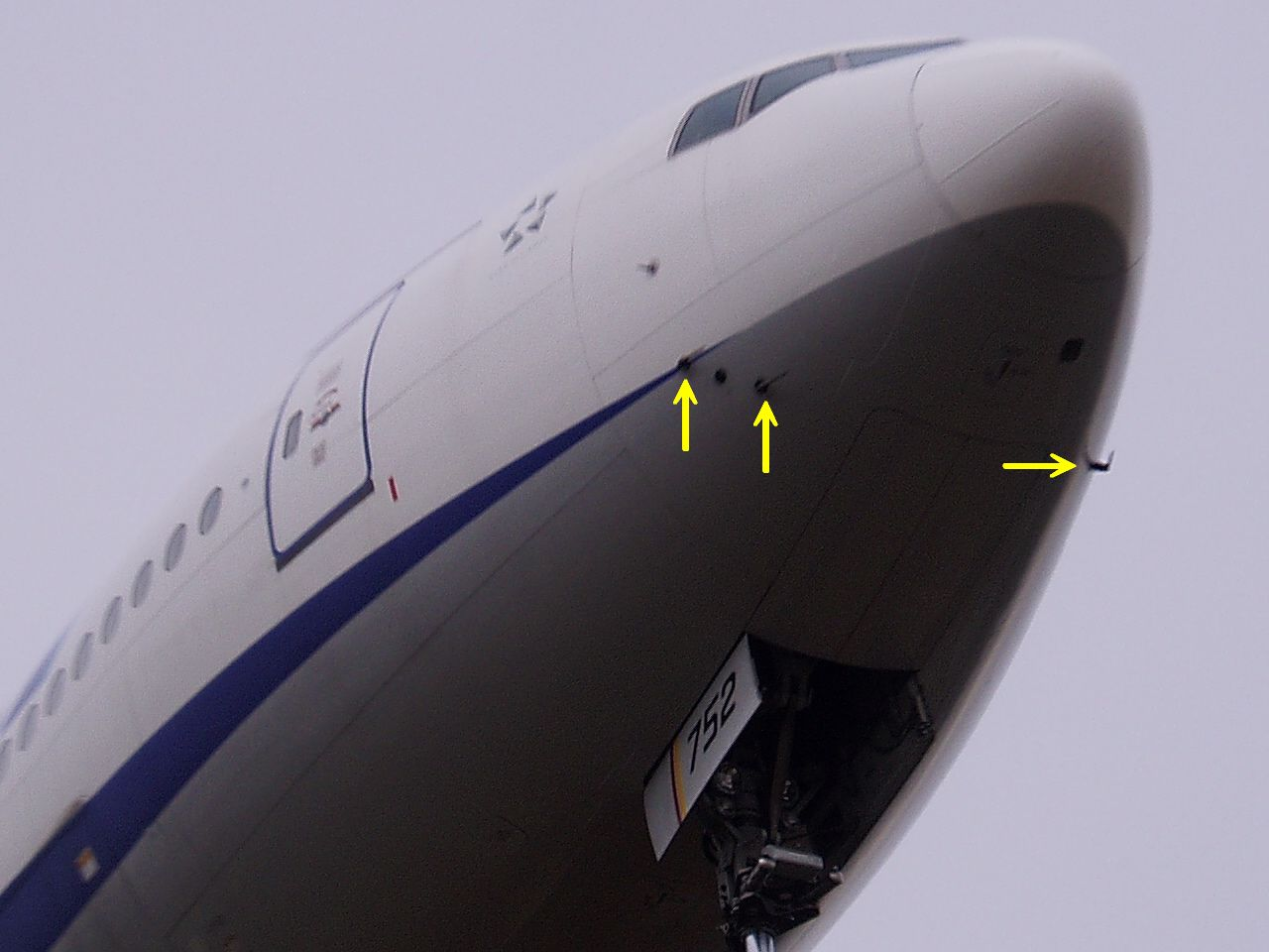 Pitot tube of Boeing777-381(shown by a yellow arrow)